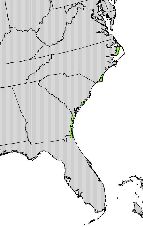 Range map of Yucca gloriosa